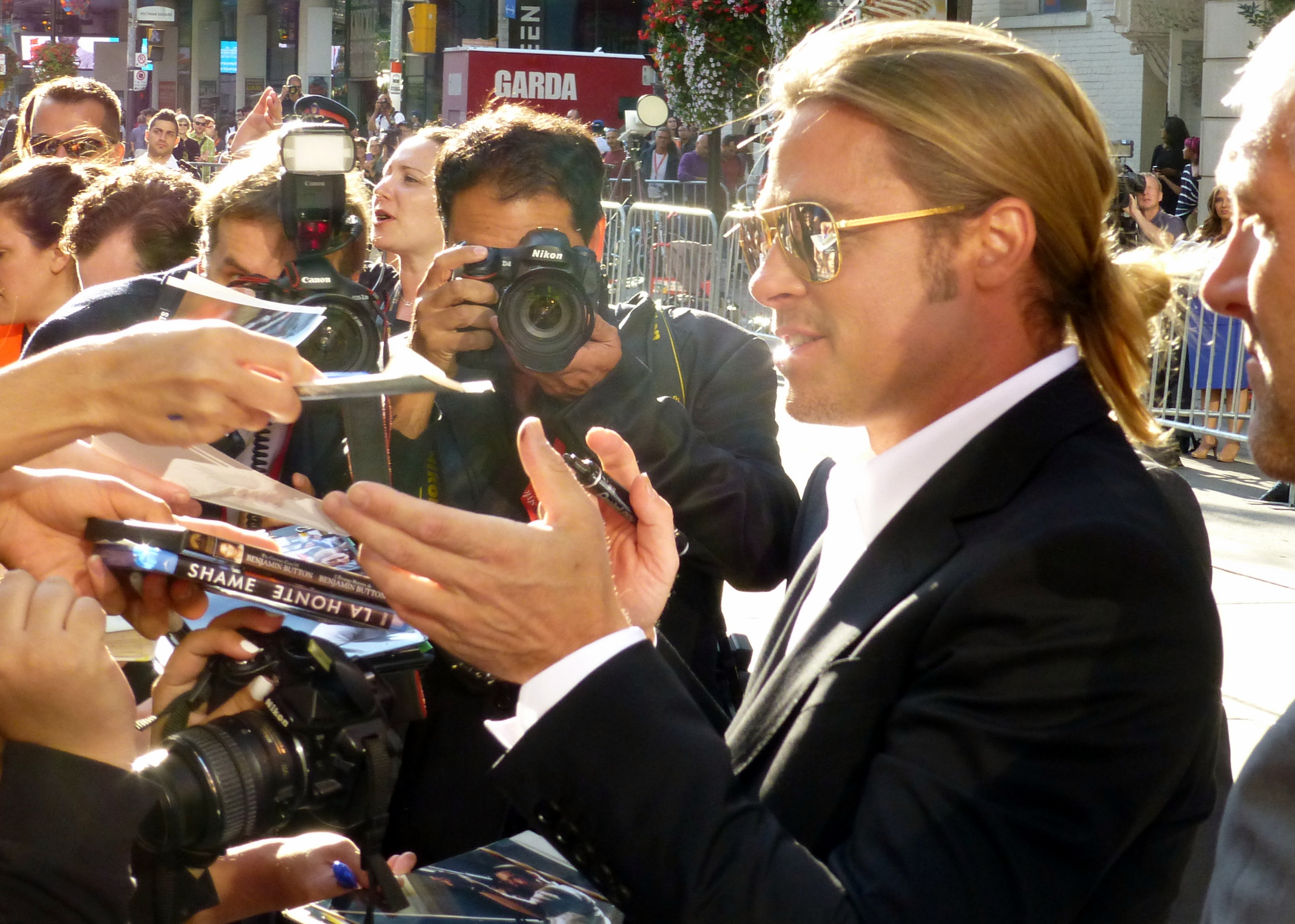 Brad Pitt at the premiere of 12 Years a Slave, 2013 Toronto Film Festival